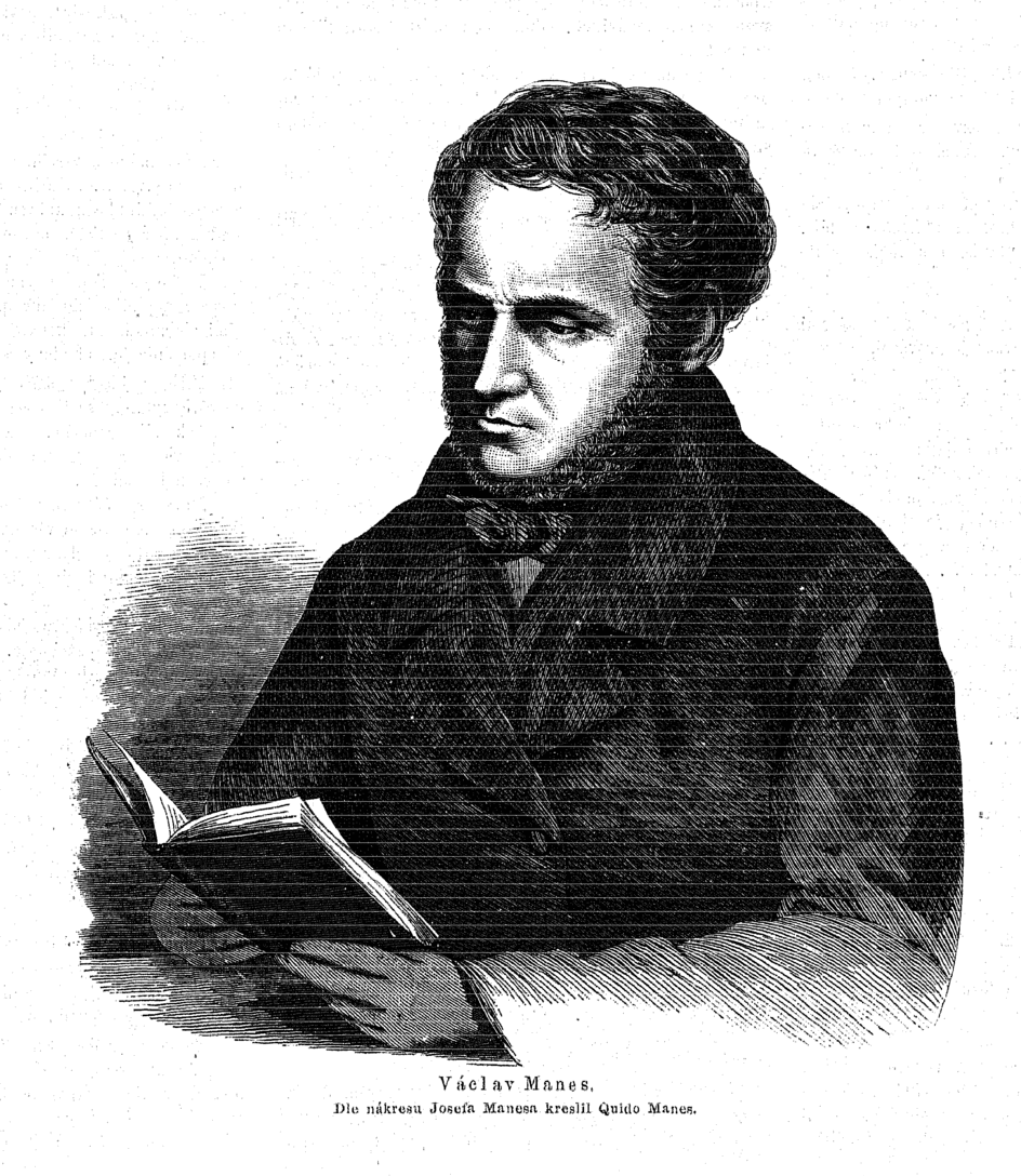 Portrait of Václav Mánes (1793-1858), Czech painter.